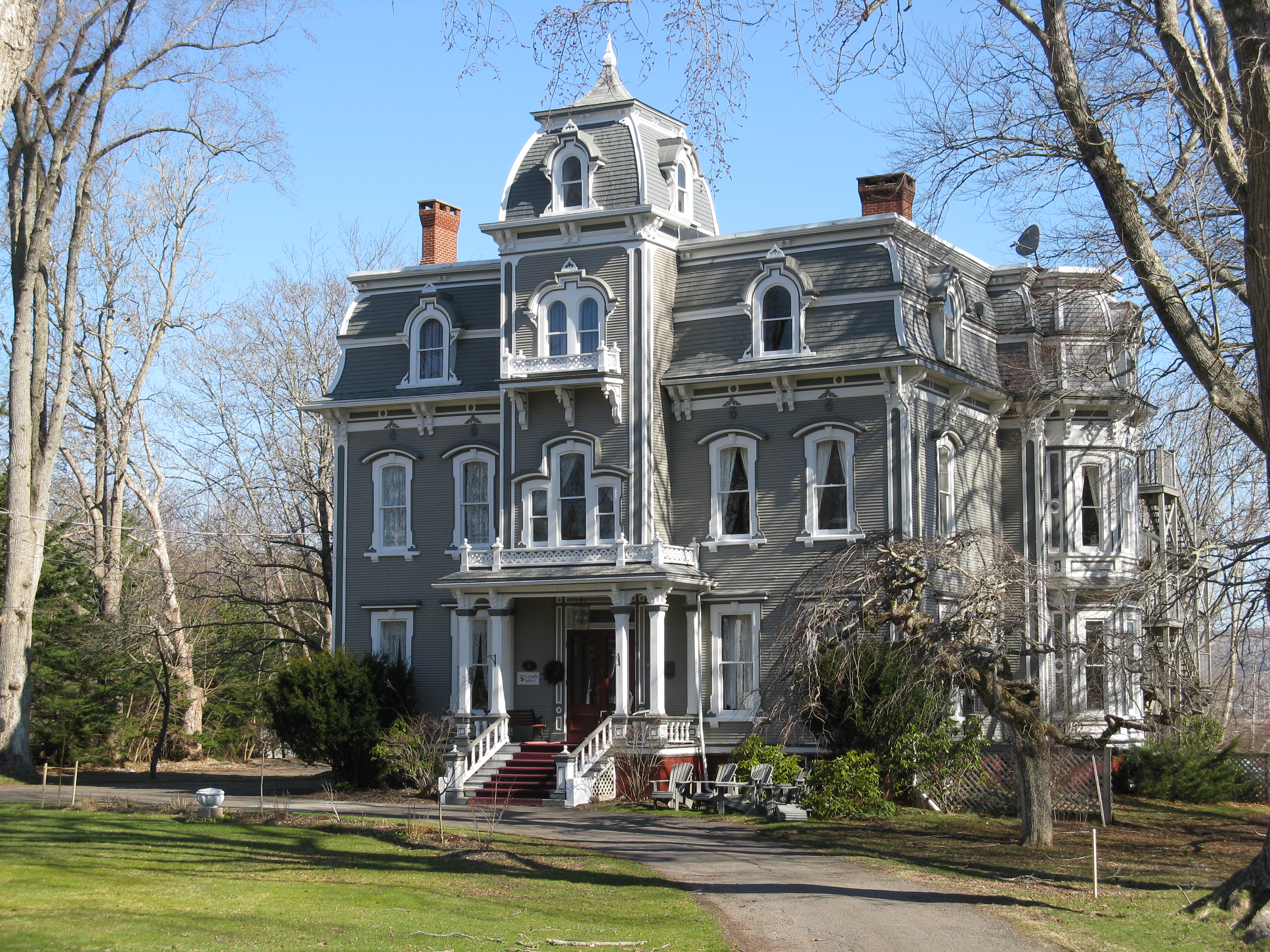 Guest house at Annapolis Royal, Nova Scotia. The building was built 1869-1870, and is called the Queen Anne Inn. It was once a boys school and is an example of Second Empire style architecture. It is a registered historic place ([1])